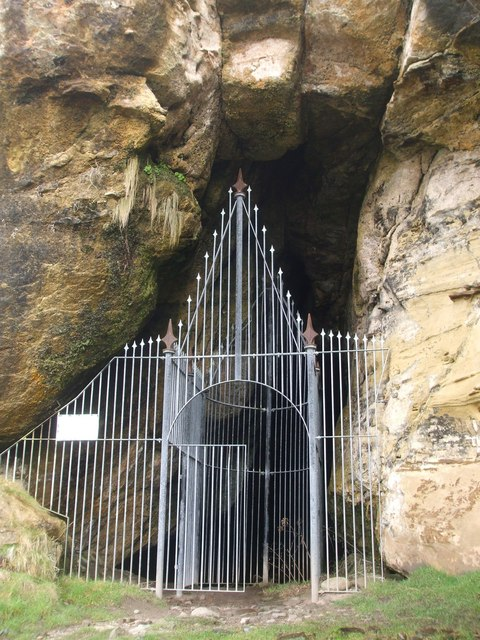 The entrance to Kings cave